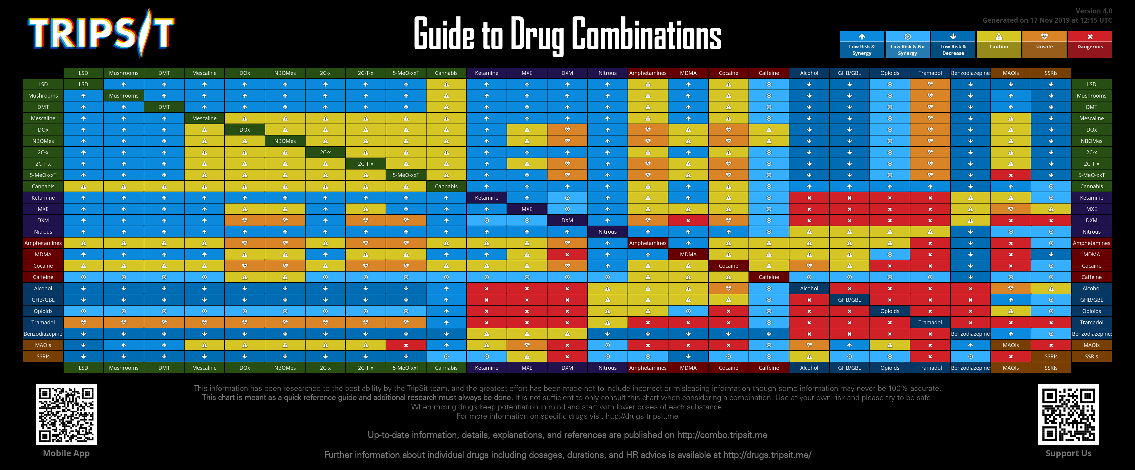 Updated drug combination chart